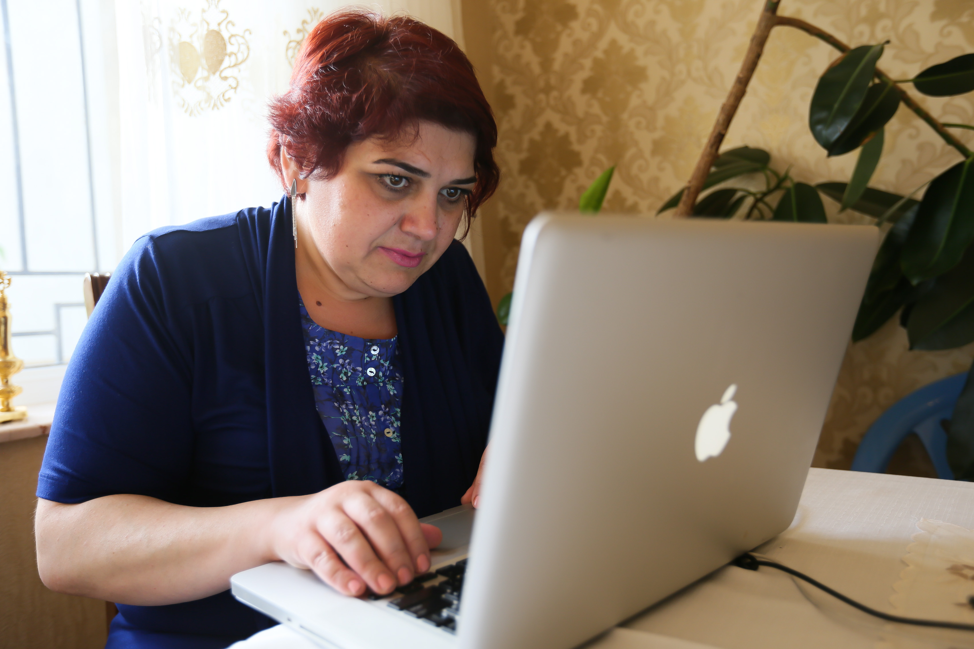 Journalist Khadija Ismayilova sits at a laptop computer as she inspects the page of Panama Papers.